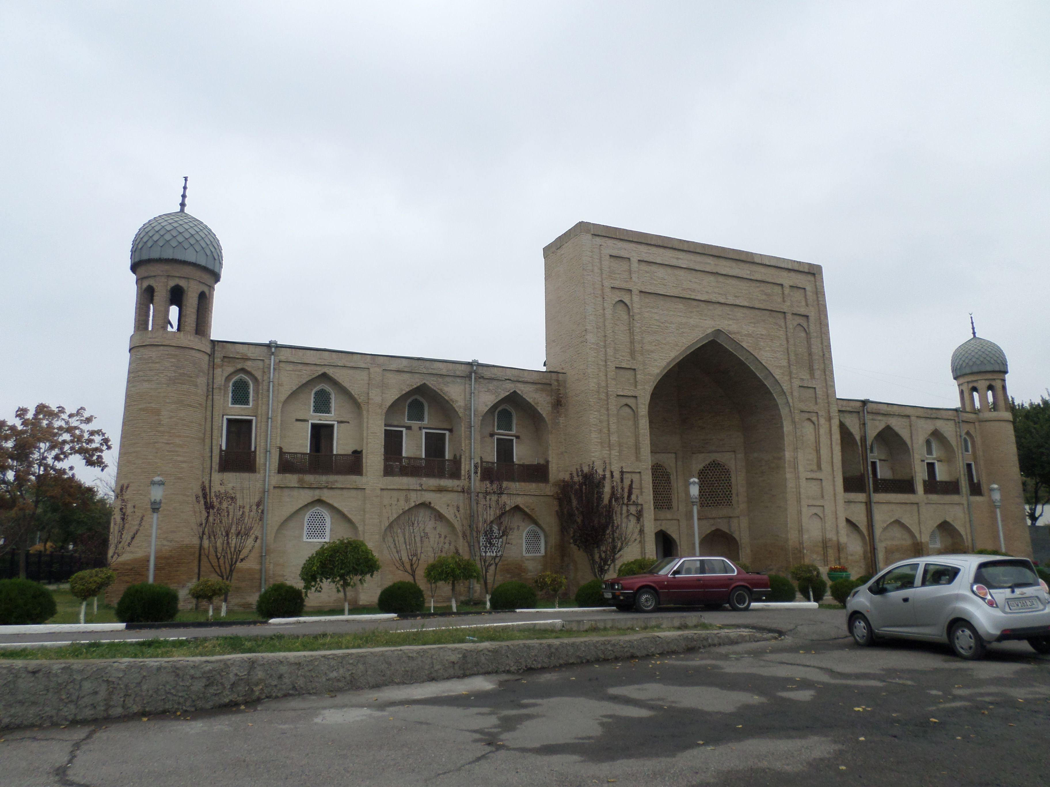 Madrasah Abdulkasim Sheikh